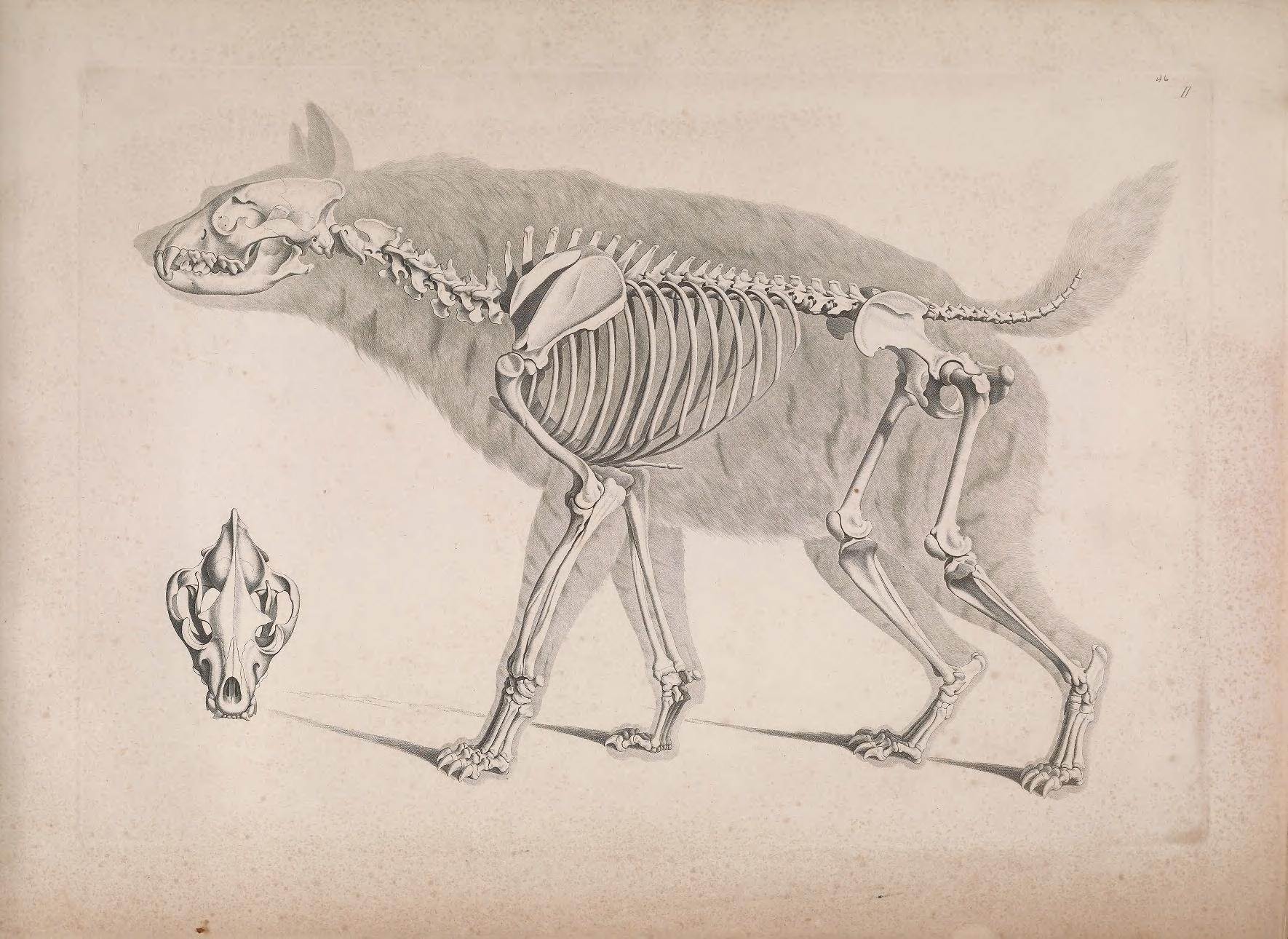 skeleton of striped hyena